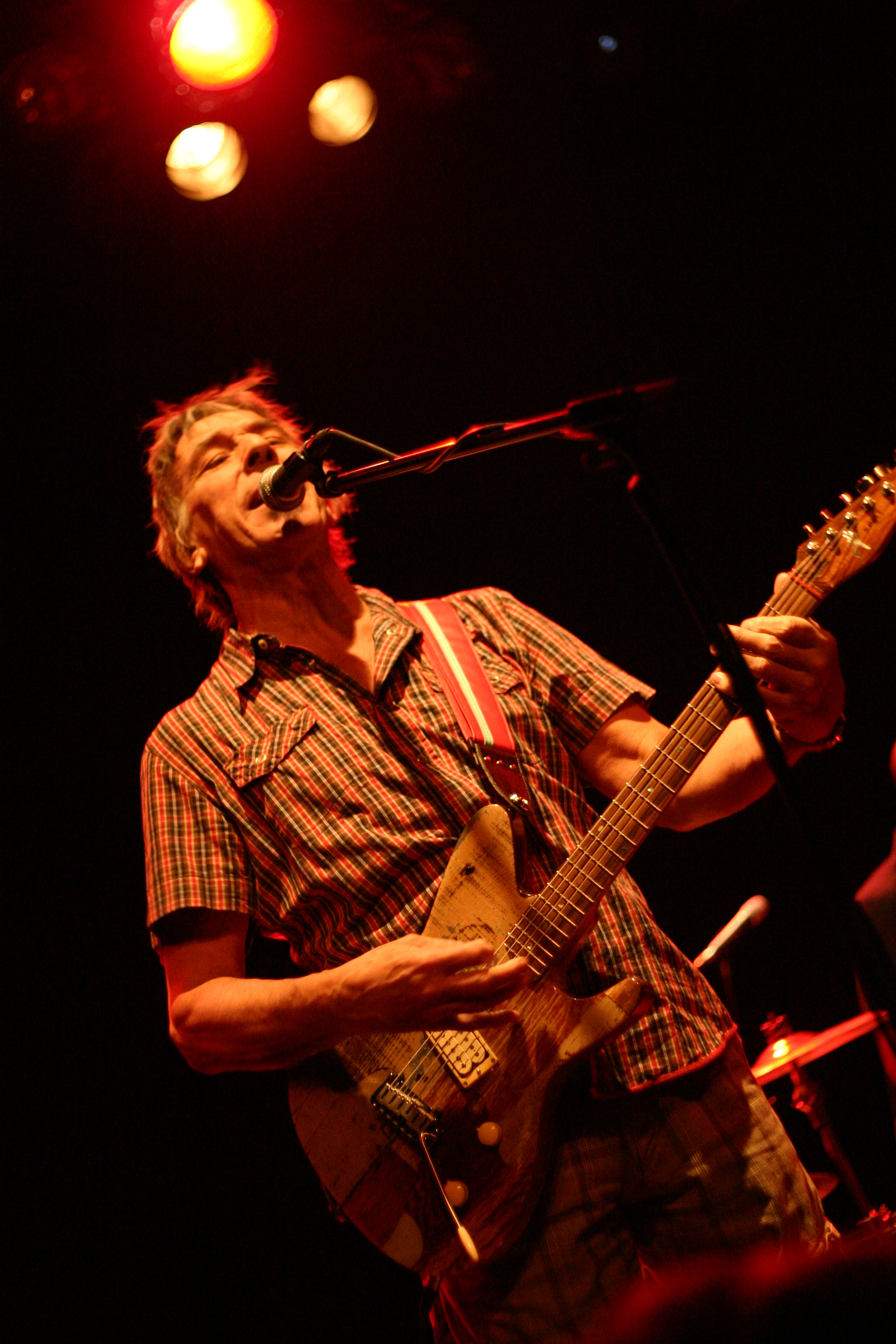 John Cale at Archa Theatre in Prague, 9 March 2006